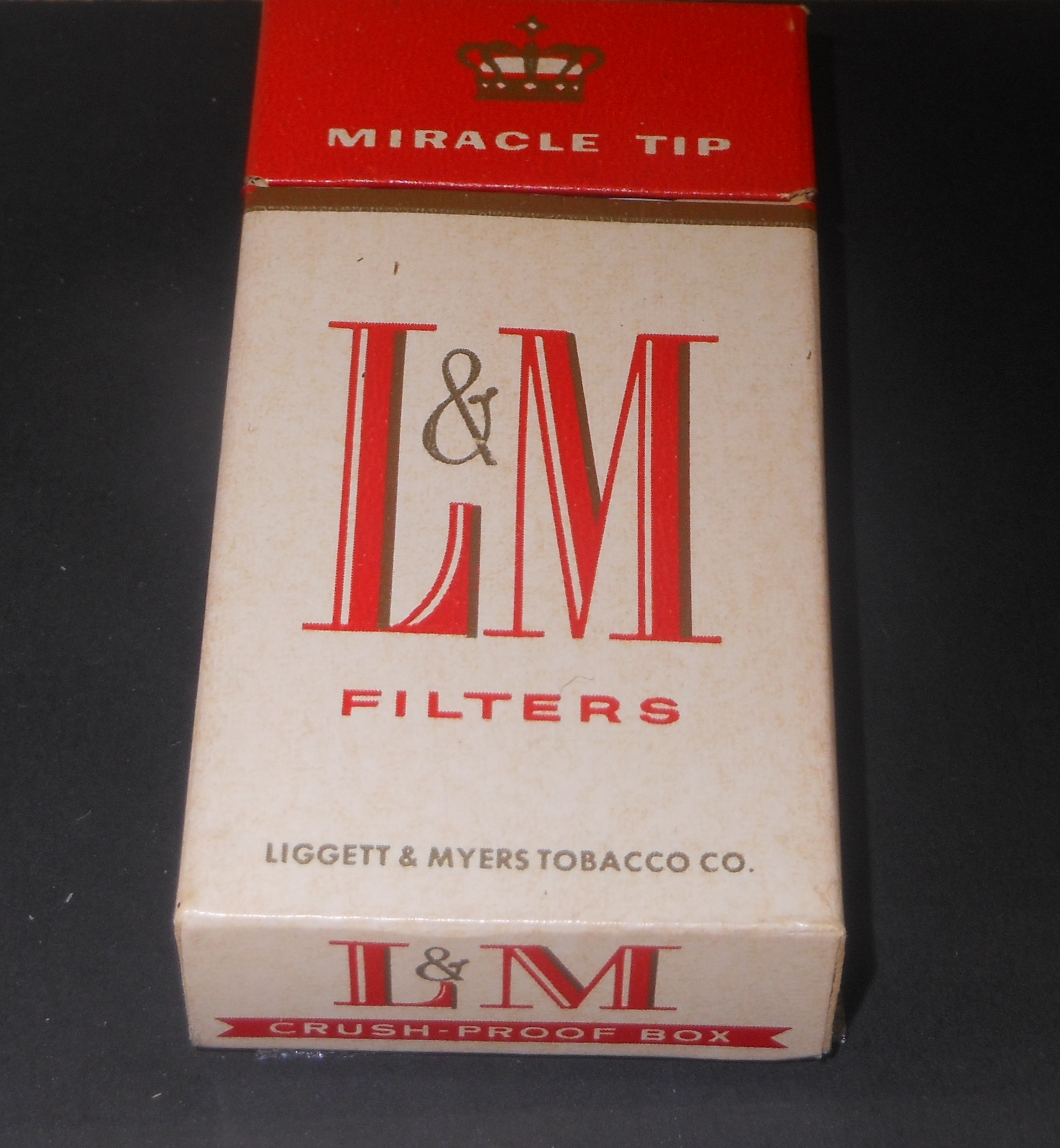 Liggett & Myers Cigarette carton from the early 20th century